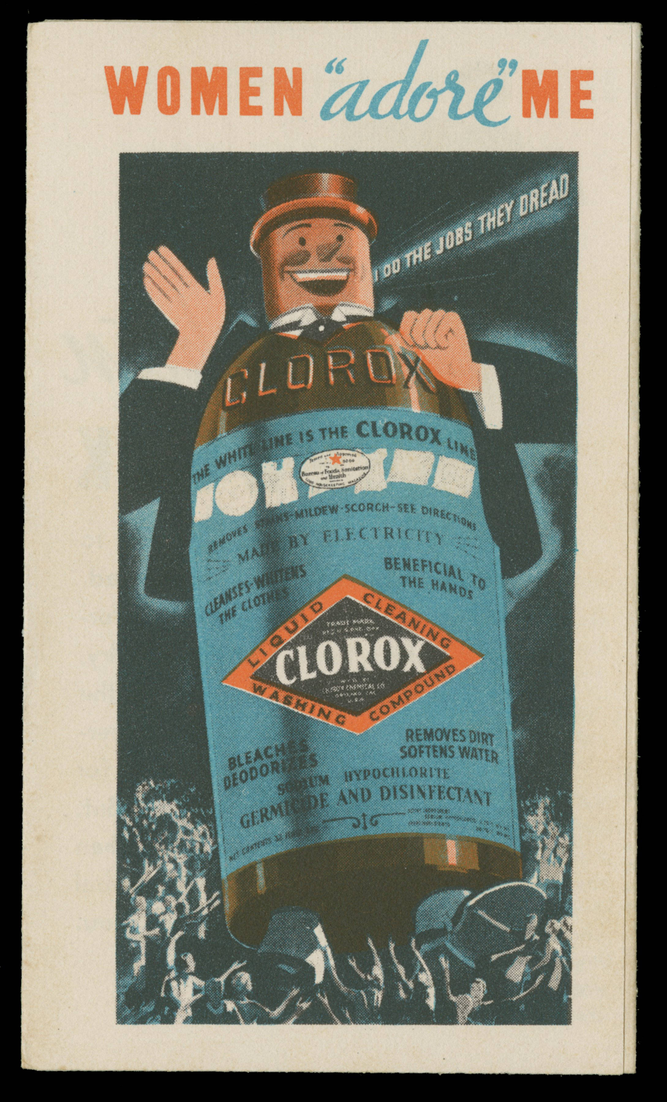 Women " adore " me